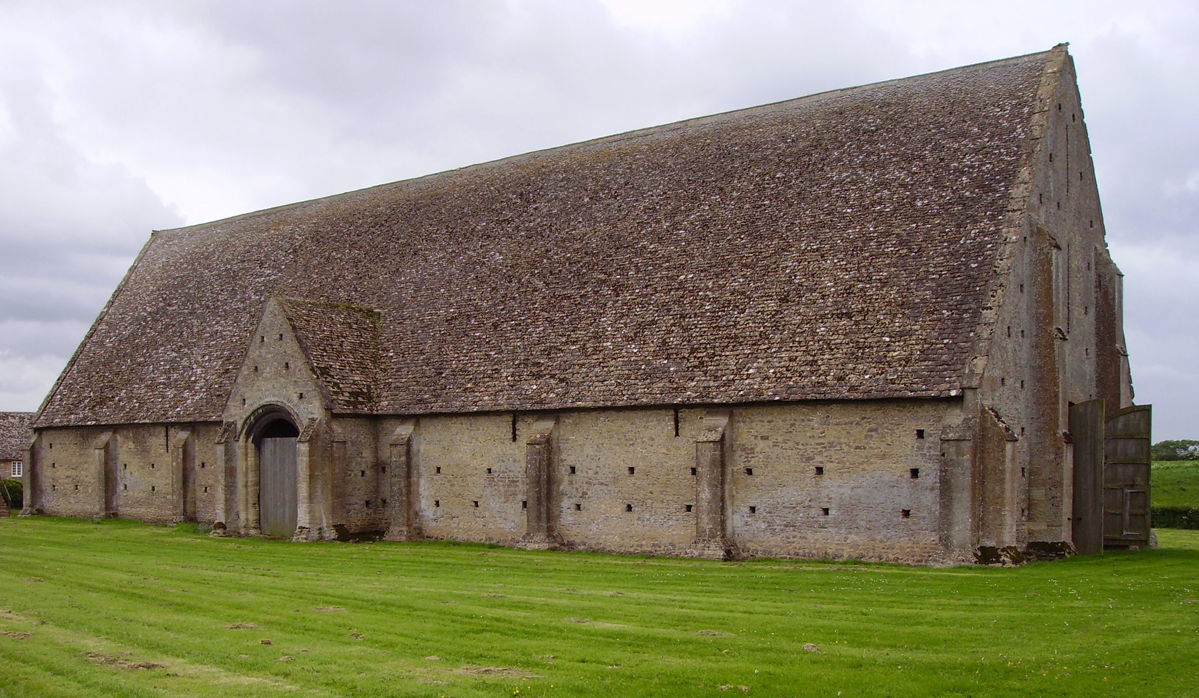 Medieval barn at Great Coxwell, Oxfordshire (formerly Berkshire), seen from the northeast